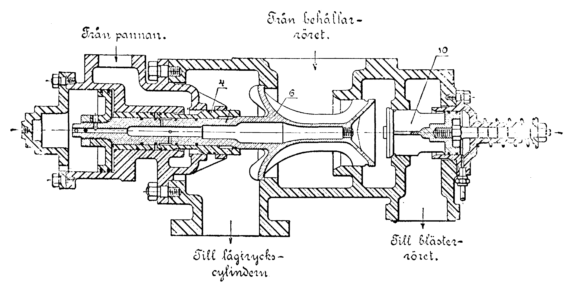 Mellin (Shift / Change-over) Starting and Intercepting Valve for compound locomotives